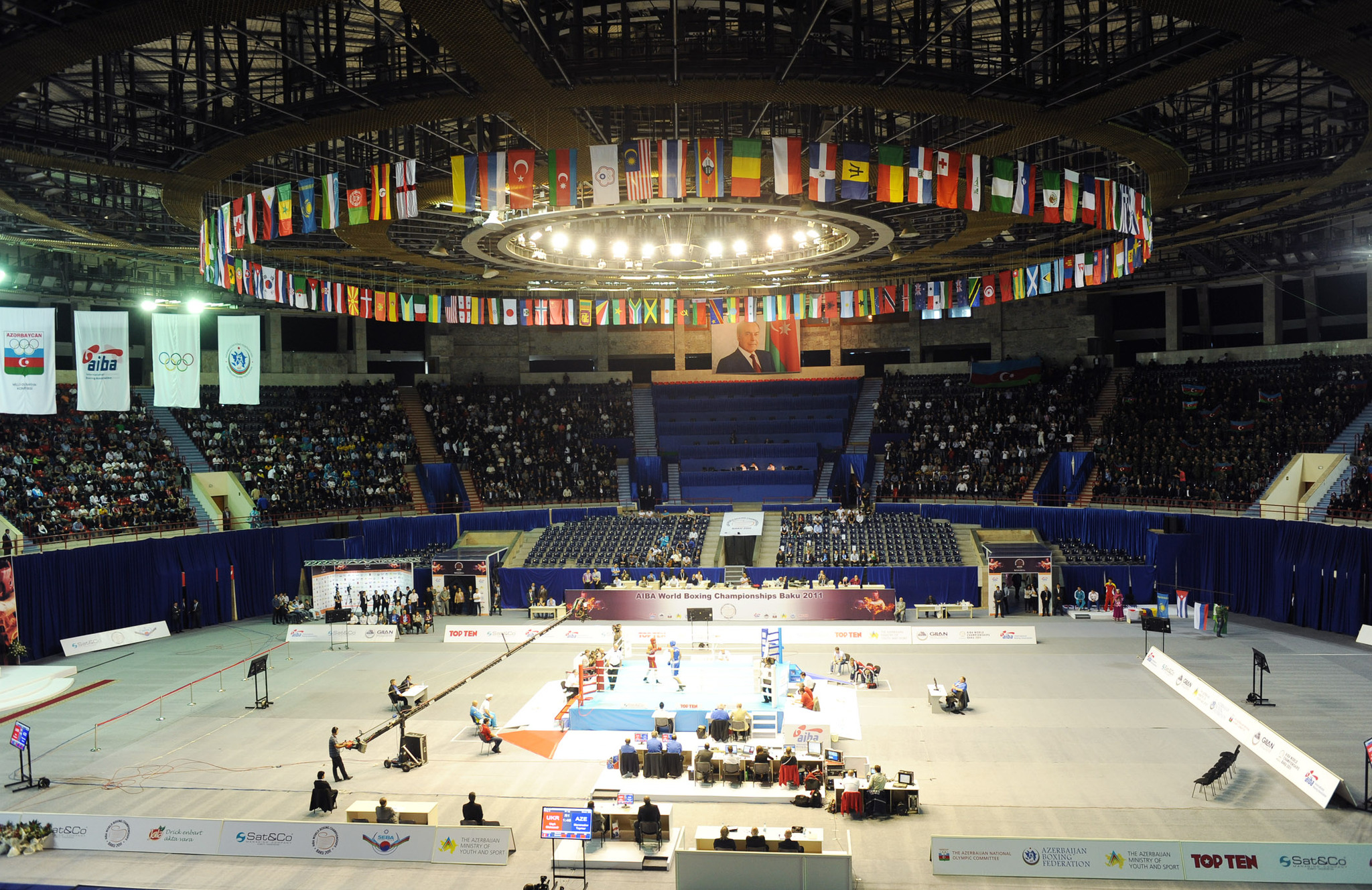 Final bouts of the 16th world boxing championship